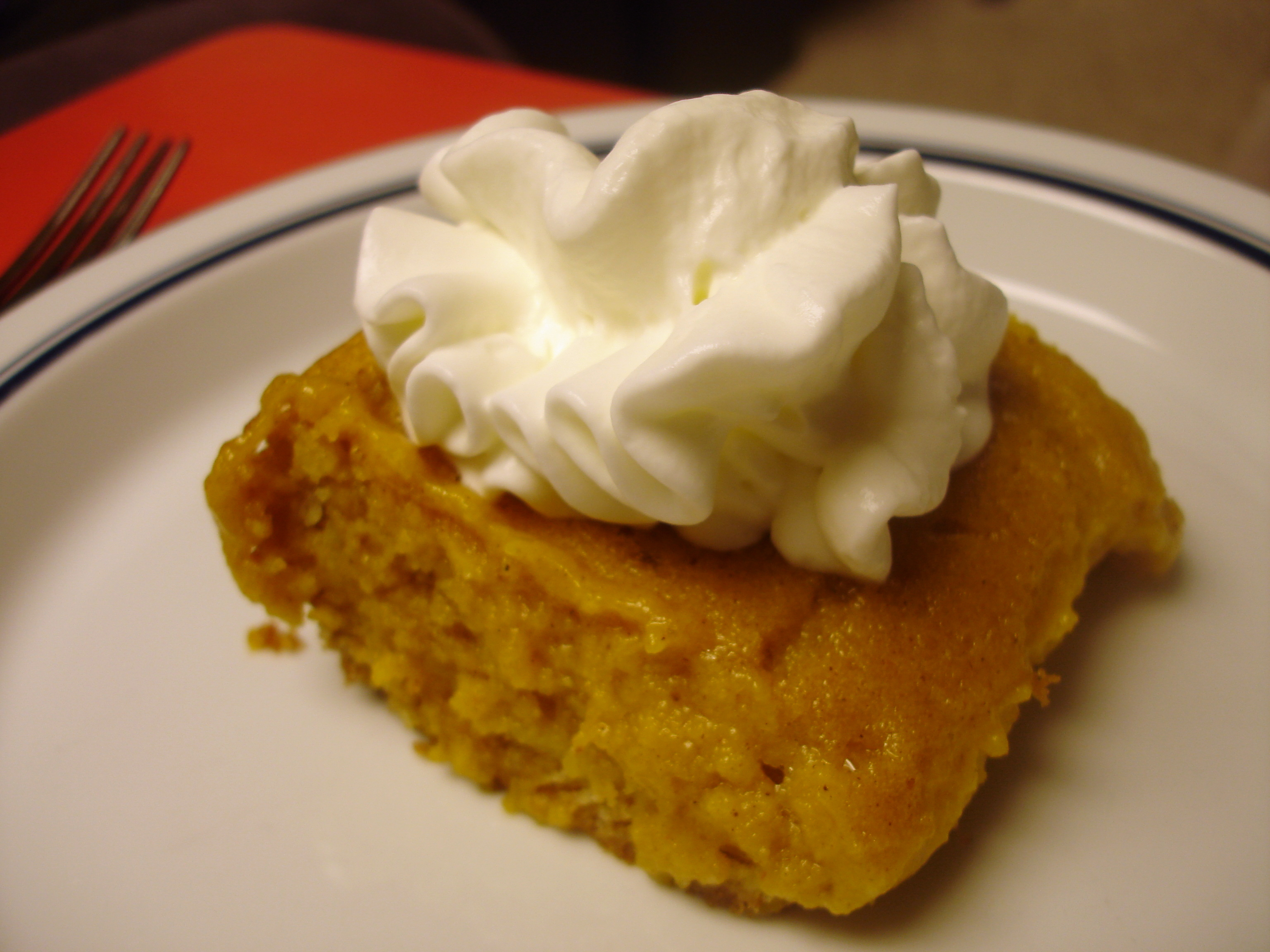 Gooey Pumpkin Butter Cake